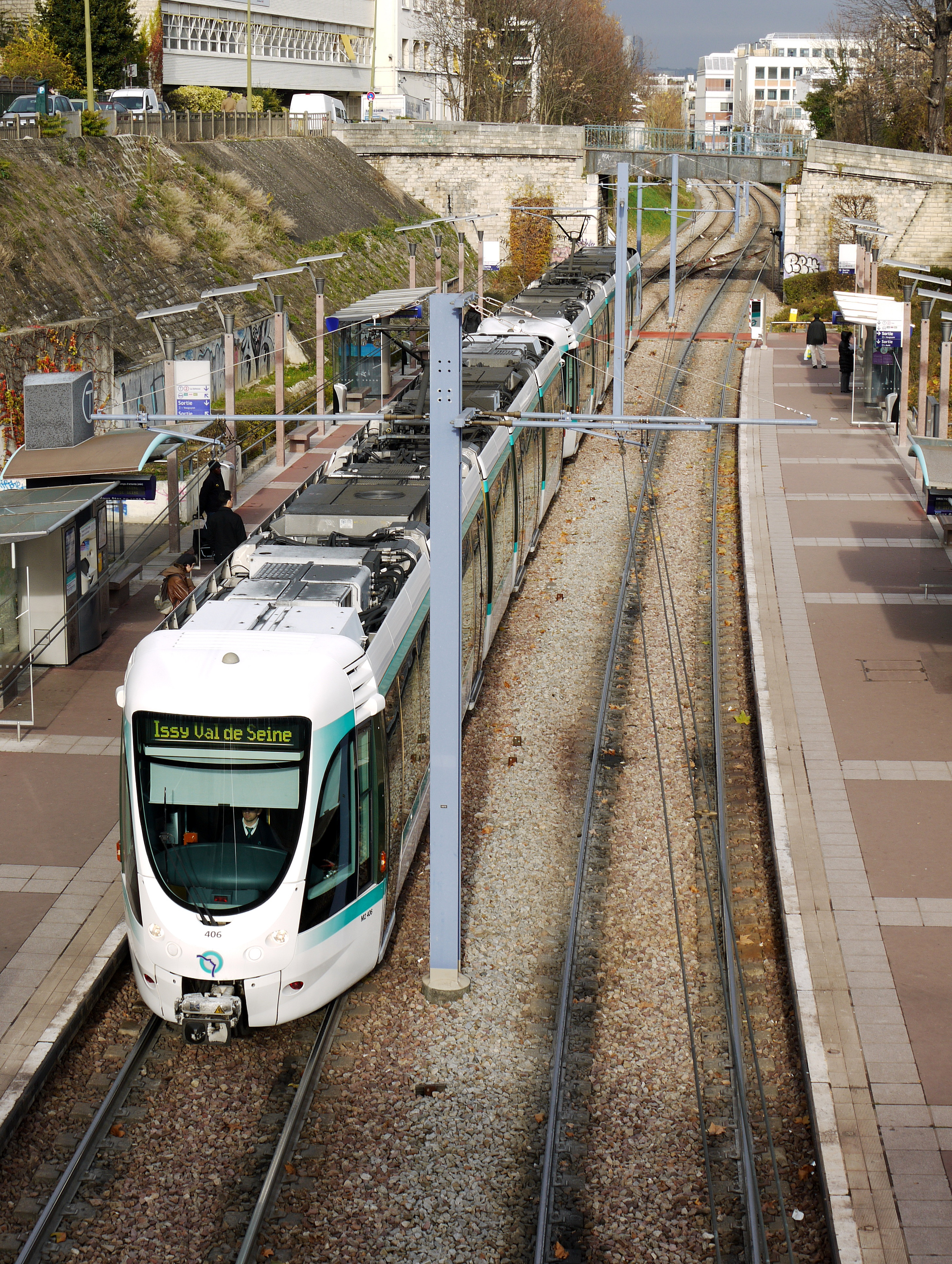 Tram line T2, station Parc de Saint-Cloud, Saint-Cloud, France (near Paris)